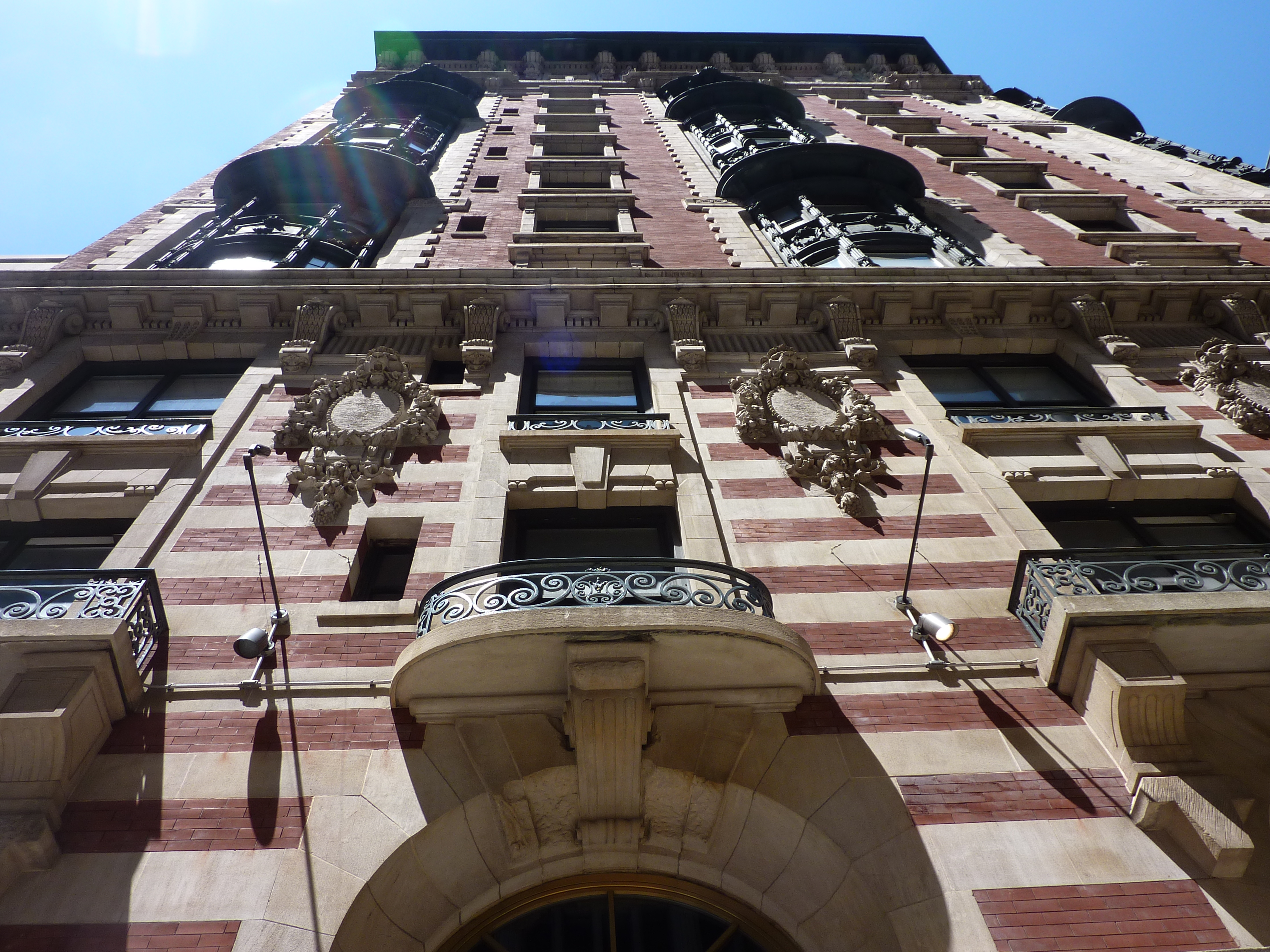 The Carlton Hotel, 88 Madison Avenue, once the Hotel Seville and haunt of such celebrities as Frank Sinatra, was built in 1904 in the Beaux-Arts style, and renovated, redesigned and reopened in 2008.